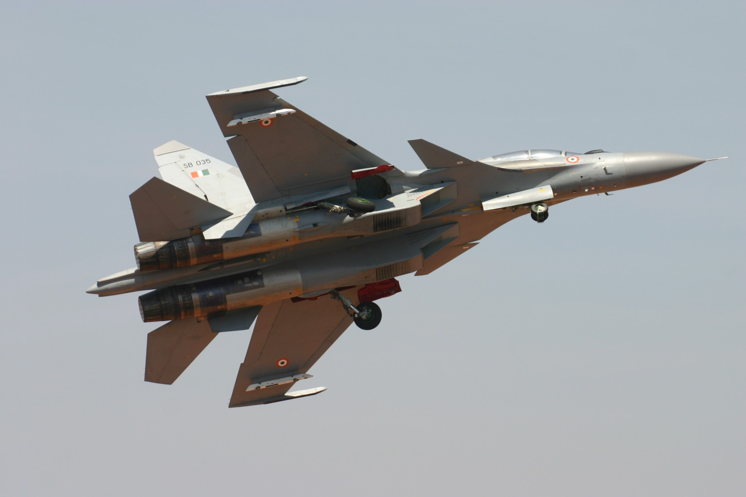 At Bangalore Yelahanka Air Force Base